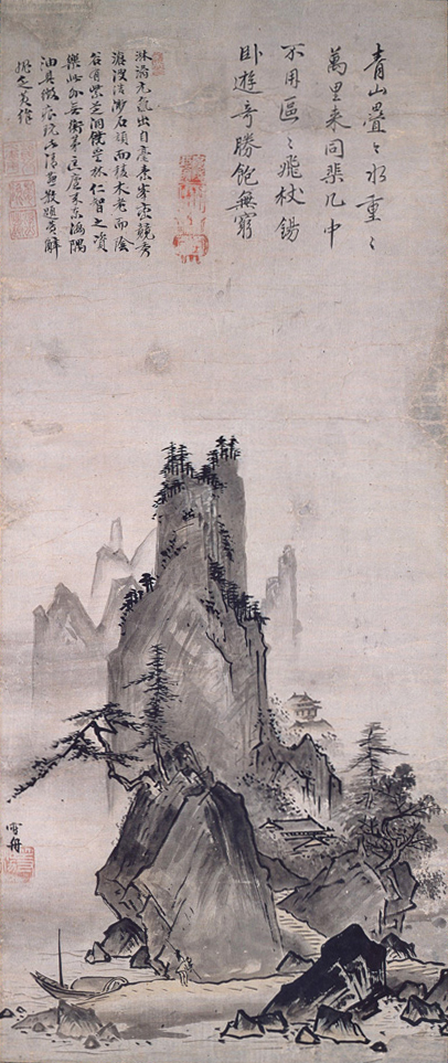 Landscape by Sesshu, Kosetsu Museum of Art, Kobe